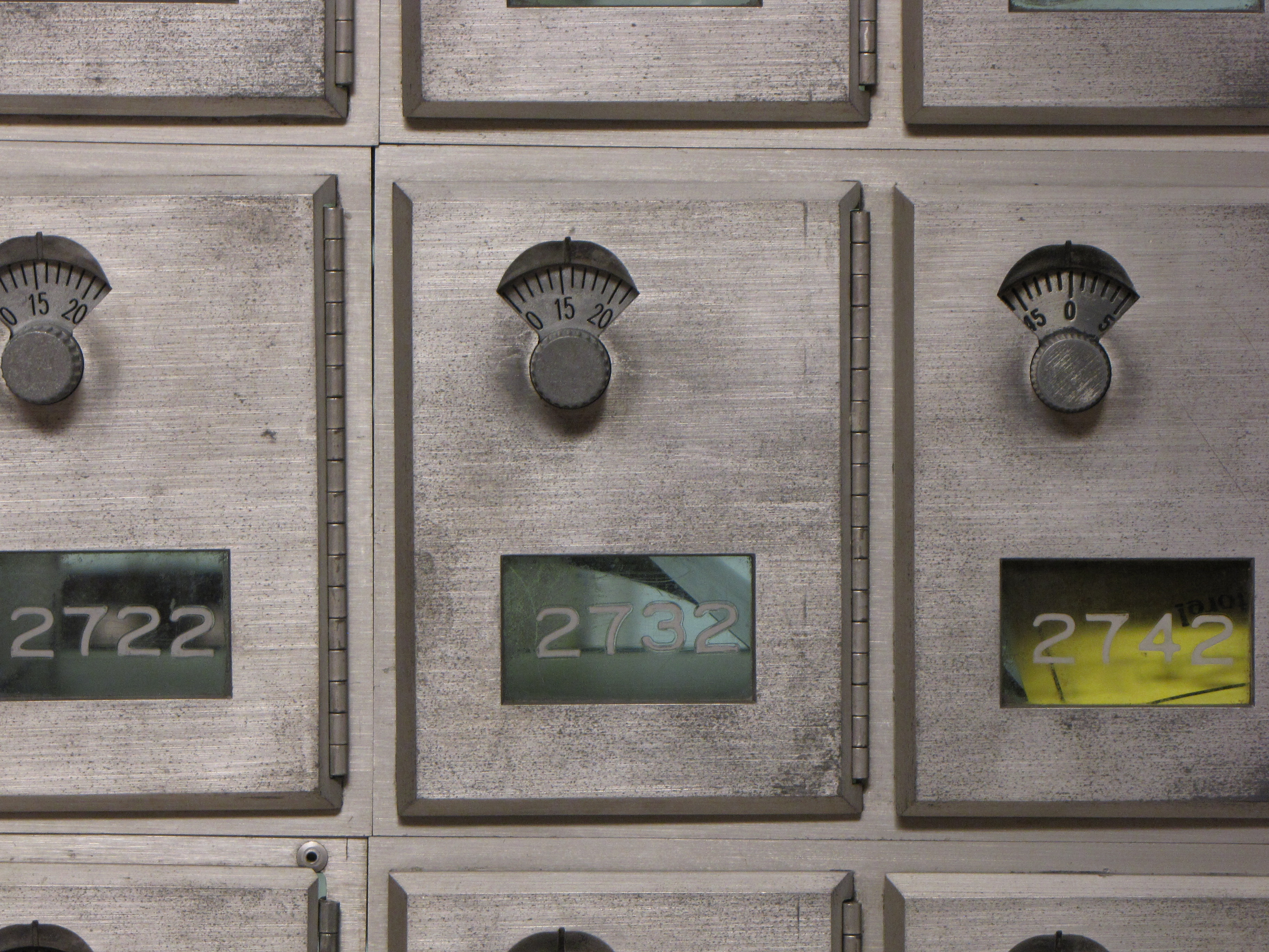 JMU Box 2732, a campus mailbox at James Madison University. This is the photographer's old campus mailbox while a student at JMU.